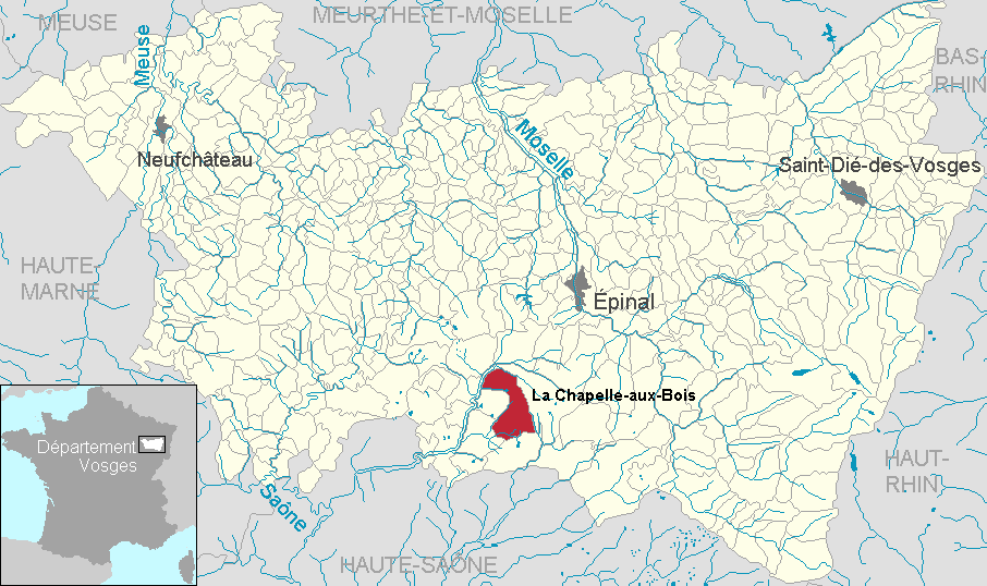 La Chapelle-aux-Bois in the department of Vosges, Lorraine, France